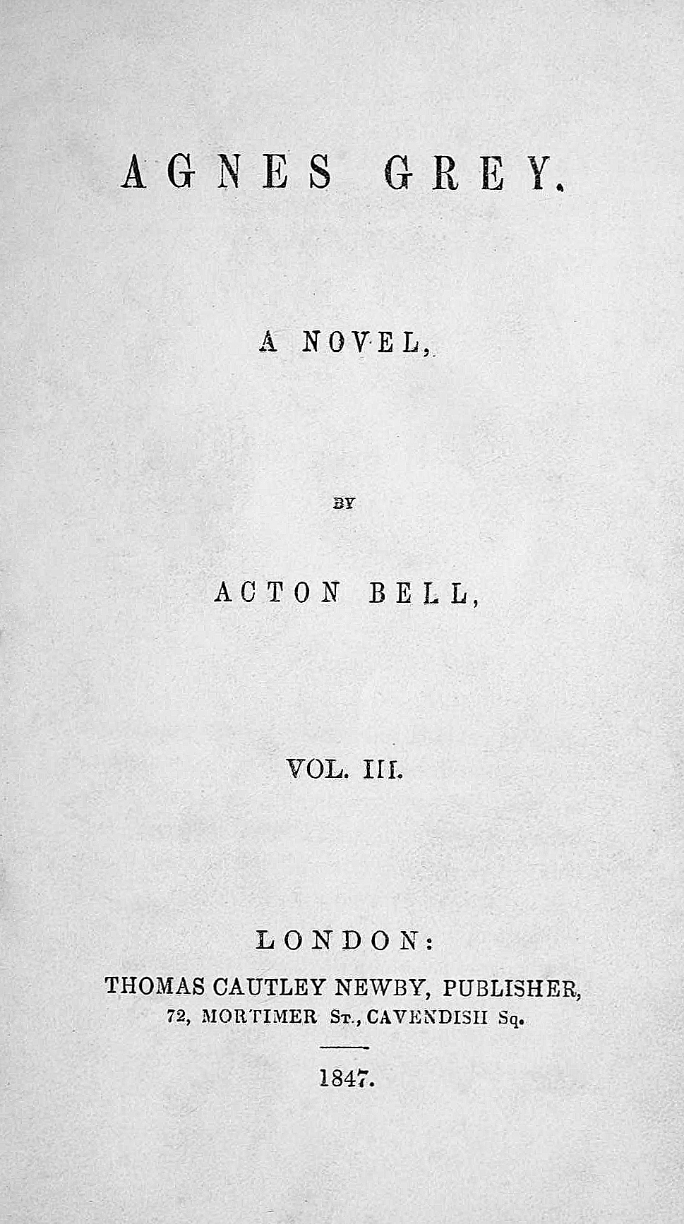 First edition title page of Agnes Grey by Anne Bronte. Volumes 1 and 2 of this edition are Wuthering Heights by Emily Bronte. SEE TALK PAGE AS TO WHY THERE'S A DUPLICATE OF THIS FILE.